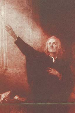 Ferenc Dávid (c1510-1579) at the diet of Torda (today Turda, Romania)